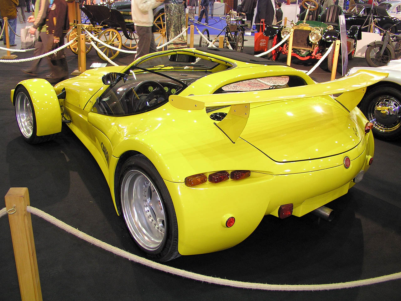 Sports car with 300 hp Cosworth engine made in small numbers by Tony Gillet in Gembloux, Belgium; rear side view. Though identified as a 2005 model by the sign in front of the car its actually a Mk 1 model from 1994.